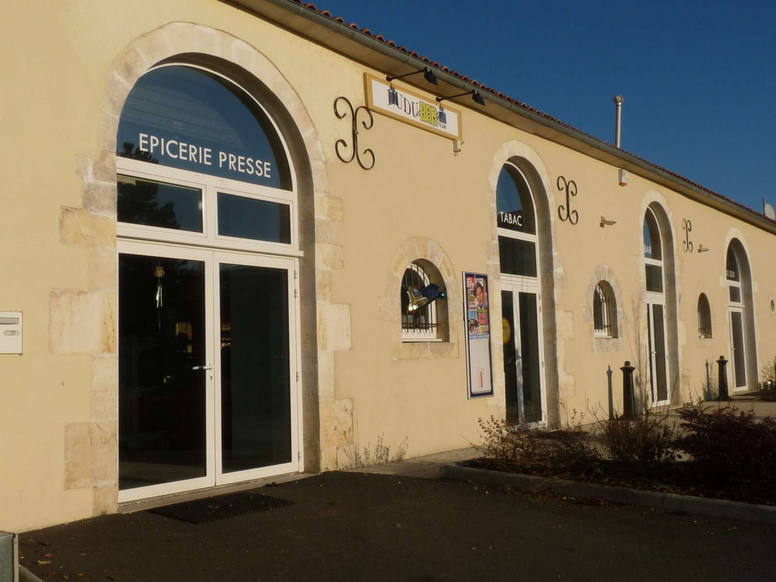 shops of Juillac-le-Coq, Charente, SW France